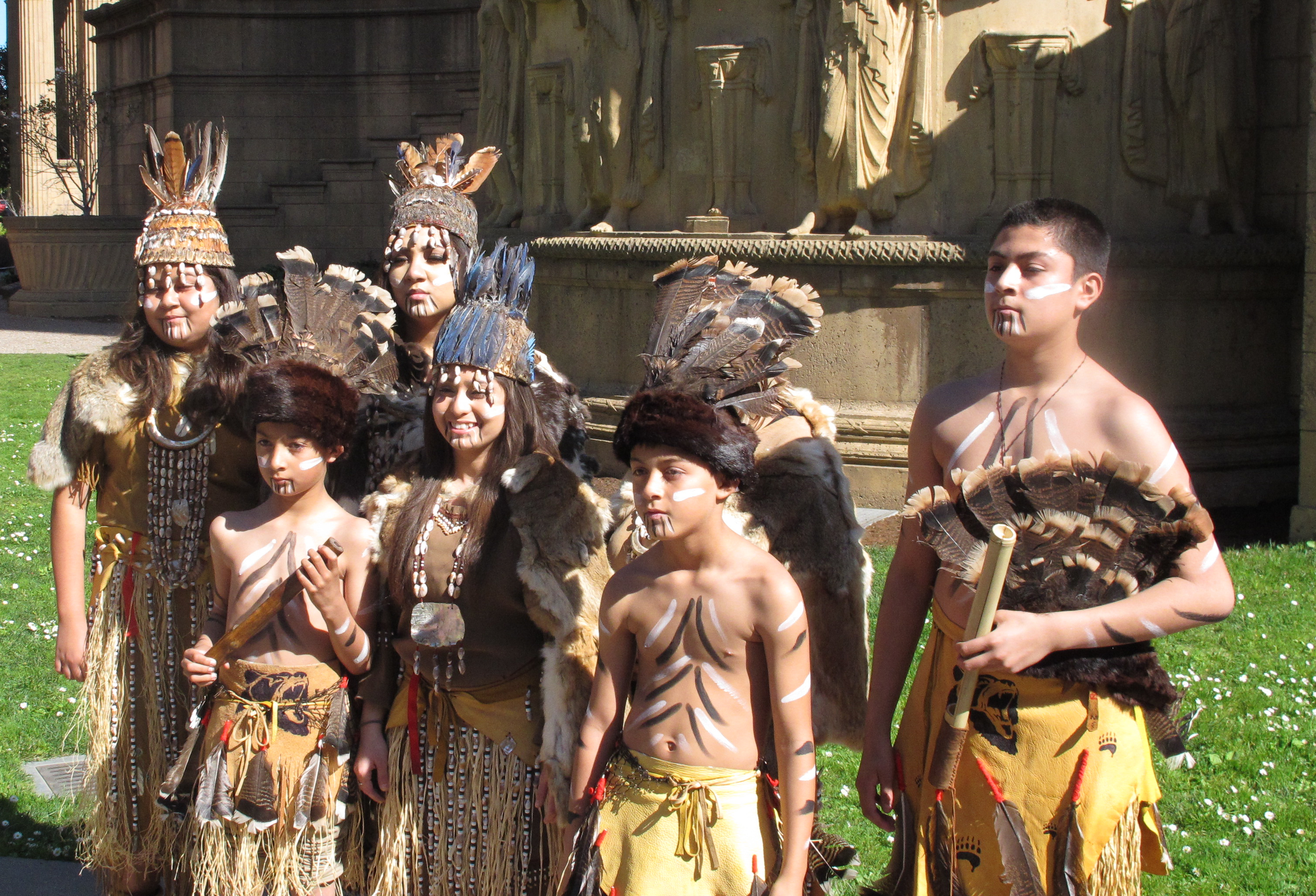 Ohlone family in traditional regalia at the Palace of Fine Arts in San Francisco, CA, USA